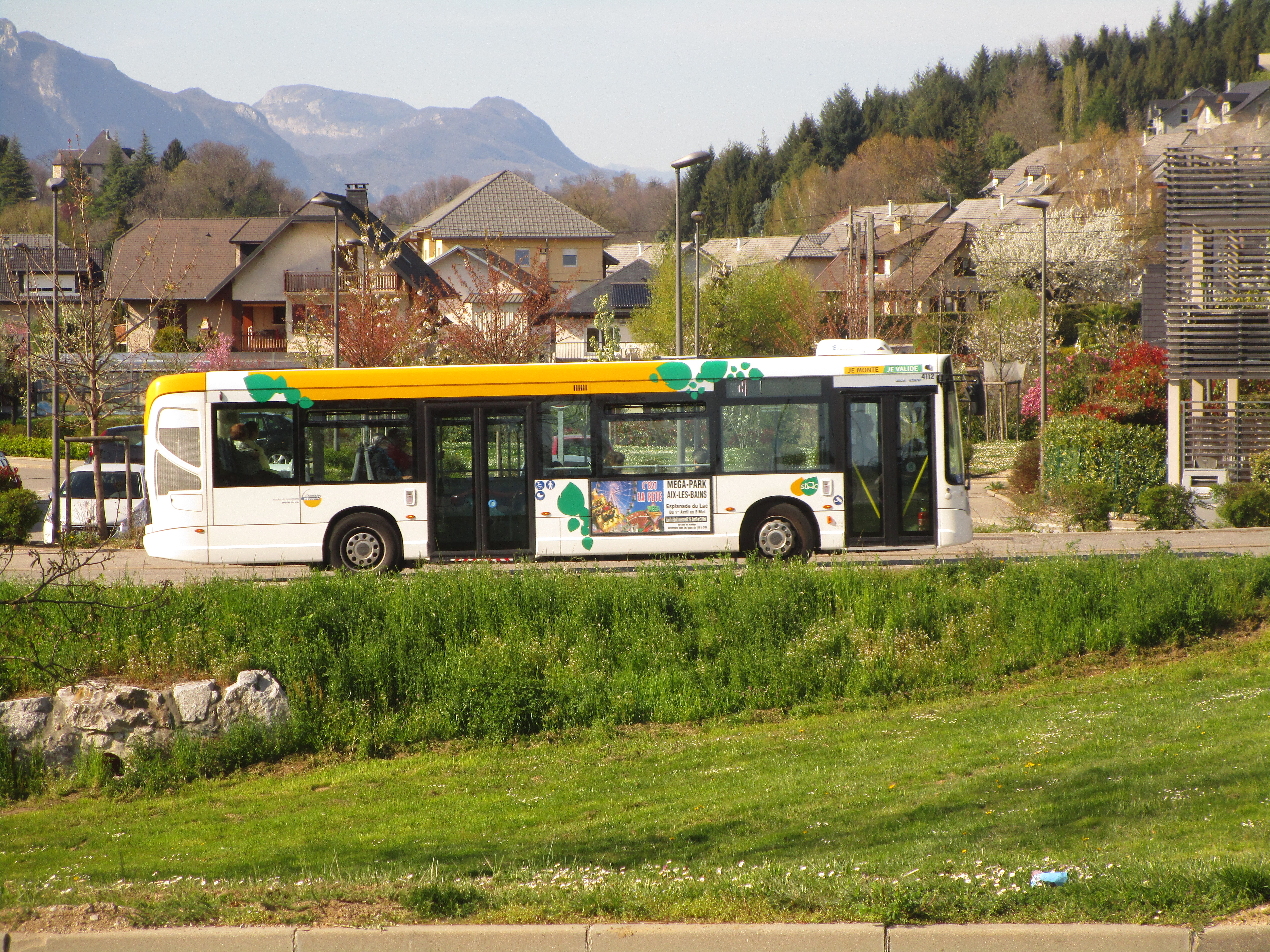 The bus Heuliez GX 137 n°4112 of the Stac, on the line 4 (De Gaulle, La Motte-Servolex↔Cévennes, Chambéry), in Chambéry-le-Vieux on March 30, 2017.